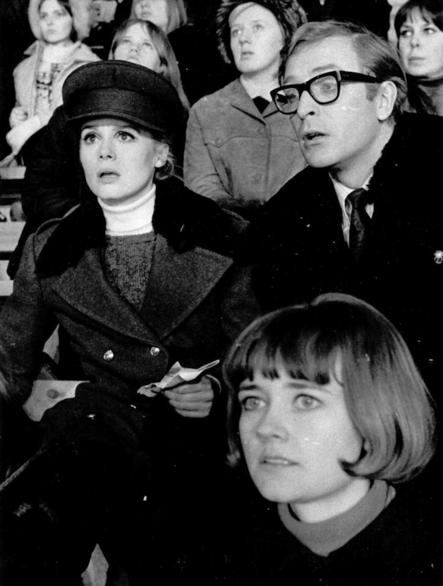 Photograph of actors Françoise Dorleac and Michael Caine watching ice hockey during the cinematography of Billion Dollar Brain in Helsinki Ice Hall. Republished in Hufvudstadsbladet, 25 January, 2016, Varför läser Michael Caine Husis?